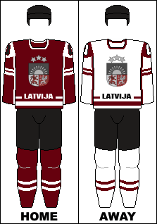 The home and away jerseys of the Latvian ice hockey team with the Latvian coat of arms in the middle.The coat of arms has been modified from this file:.